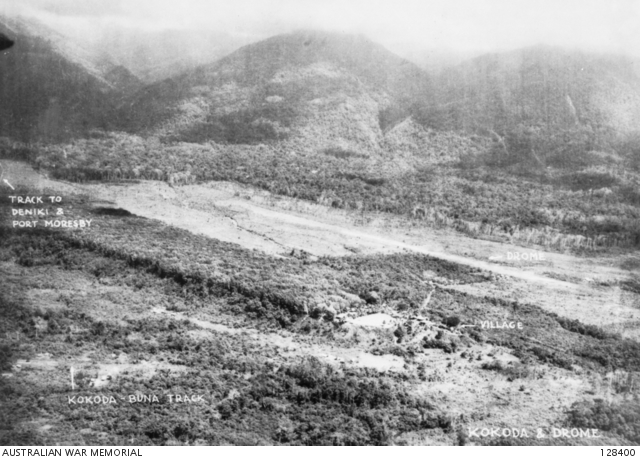 PAPUA, 1942-07-14. KOKODA VILLAGE AND AIRFIELD.